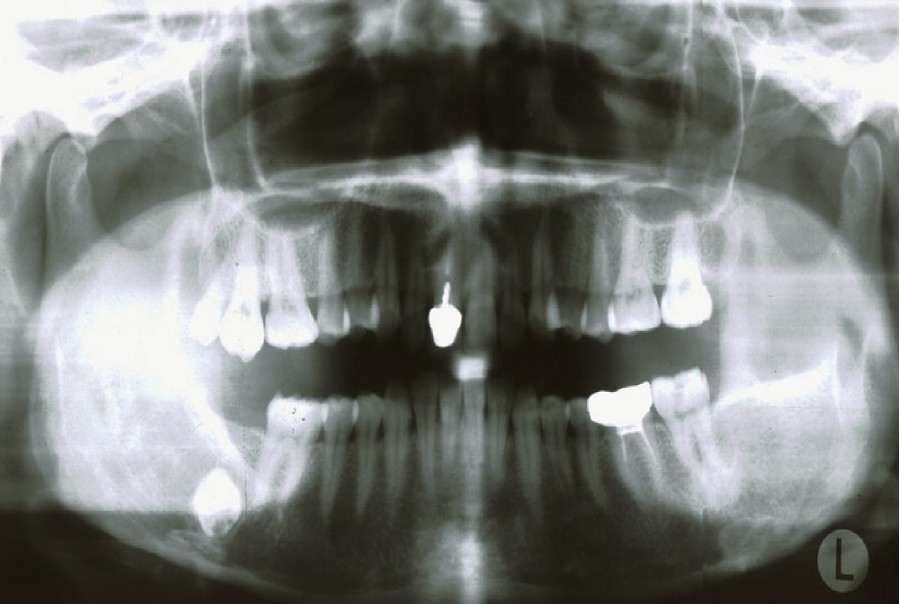 panoramic radiophotographic findings of 37 years old woman diagnosed with cherubism